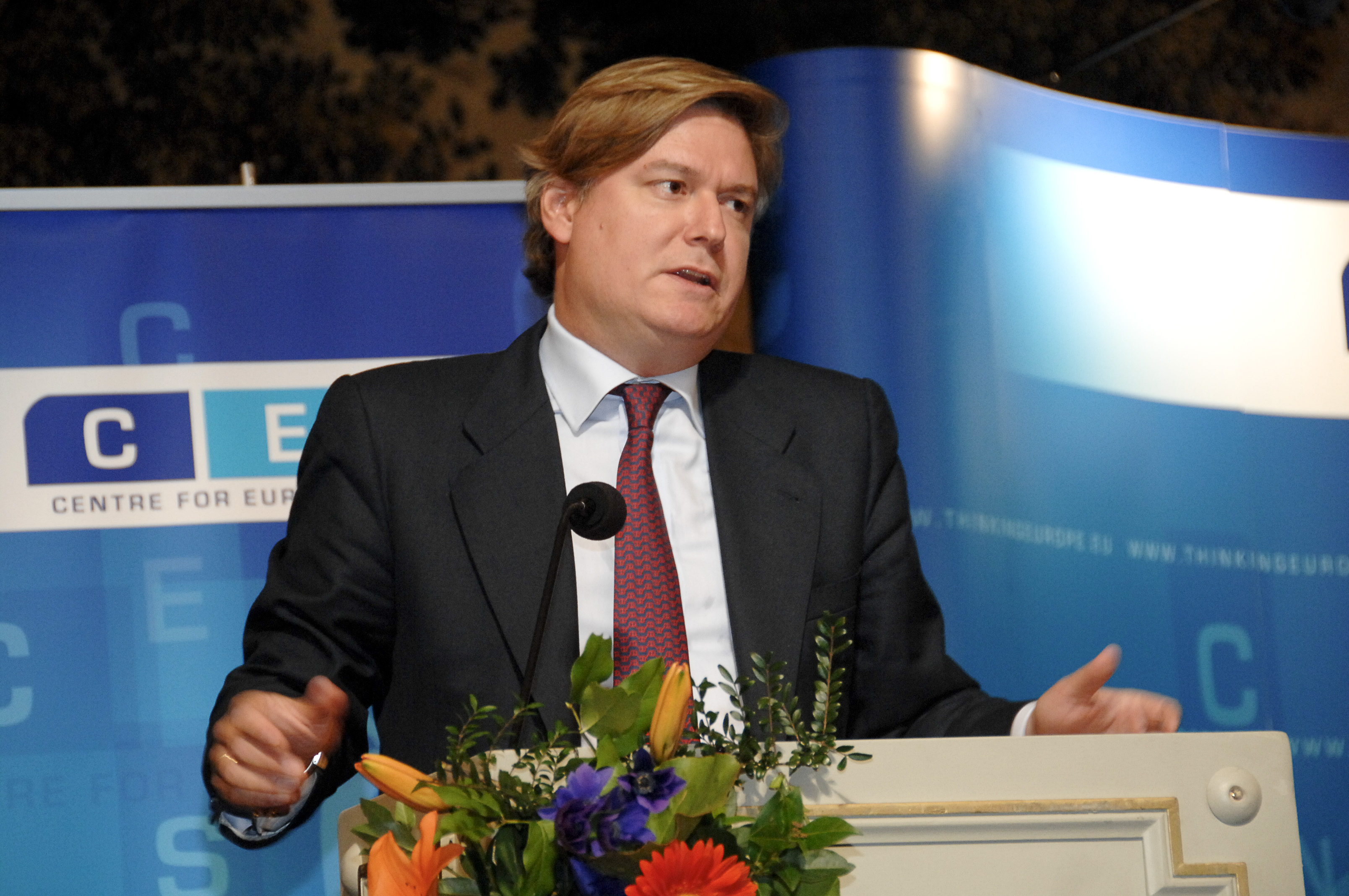 "I Struggle, I Overcome" - book launch